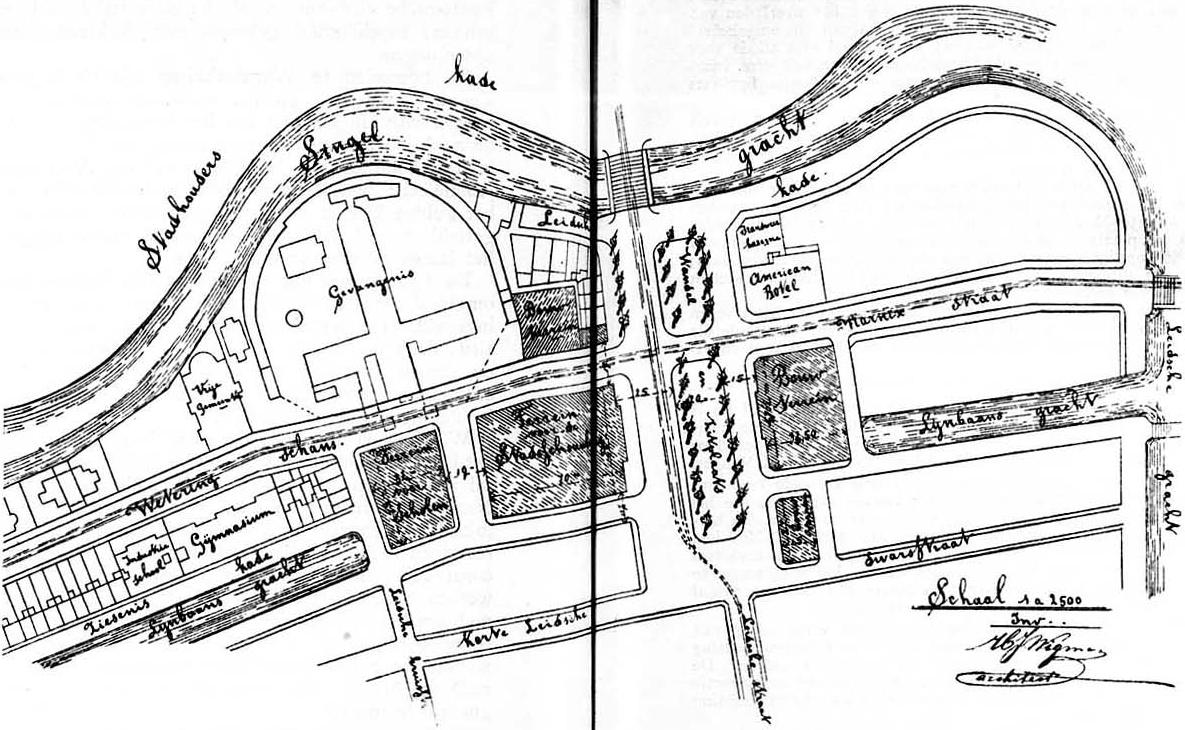 Proposal for a renovation of the Leidseplein concerning a new theatre. 1890 (?)